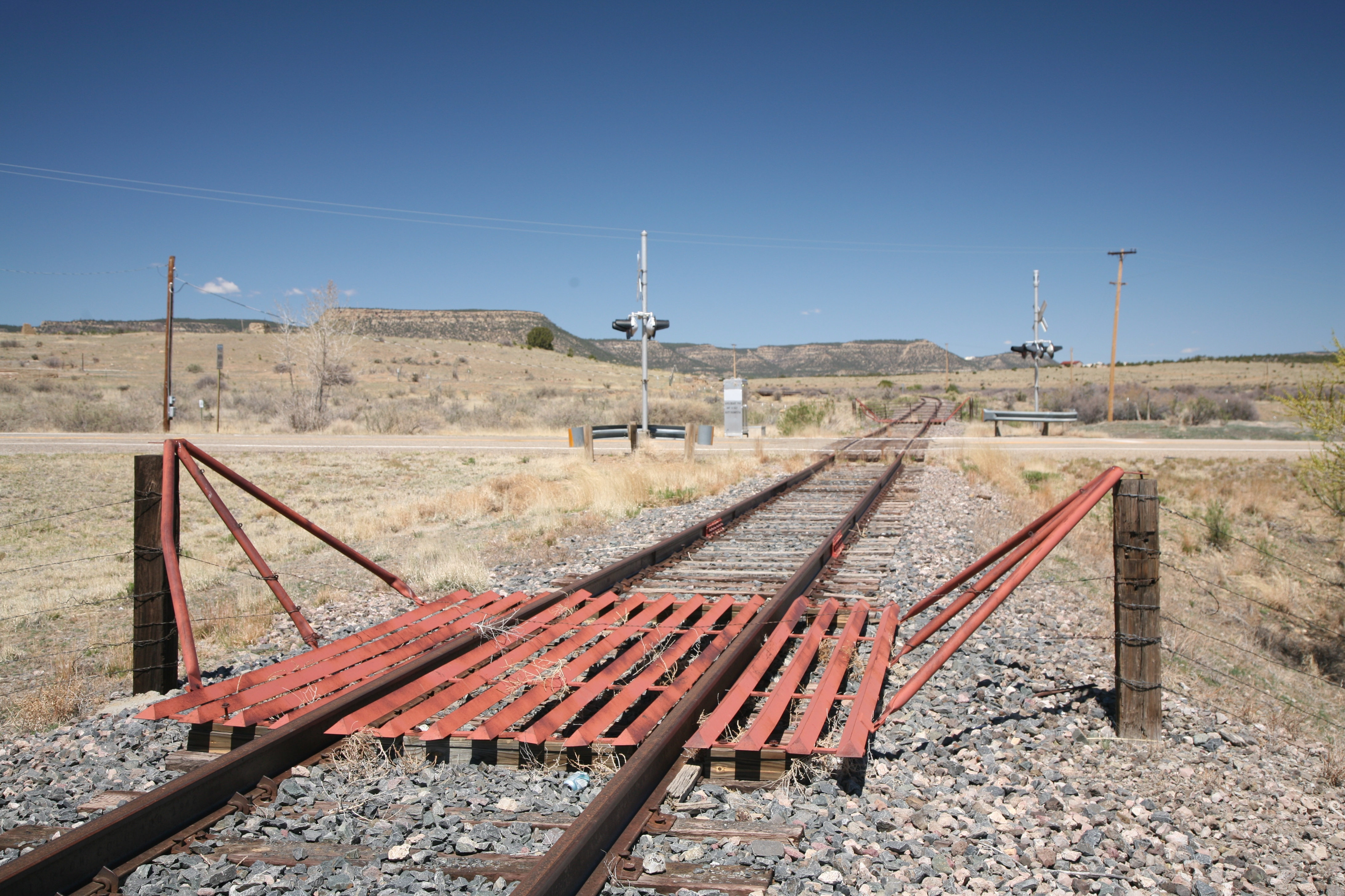 Cattle guard along a northeastern New Mexico rail line